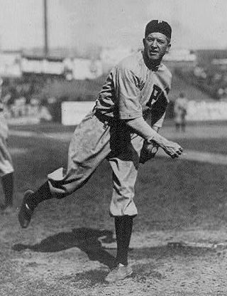 Grover Cleveland Alexander of the Philadelphia Phillies in 1915.